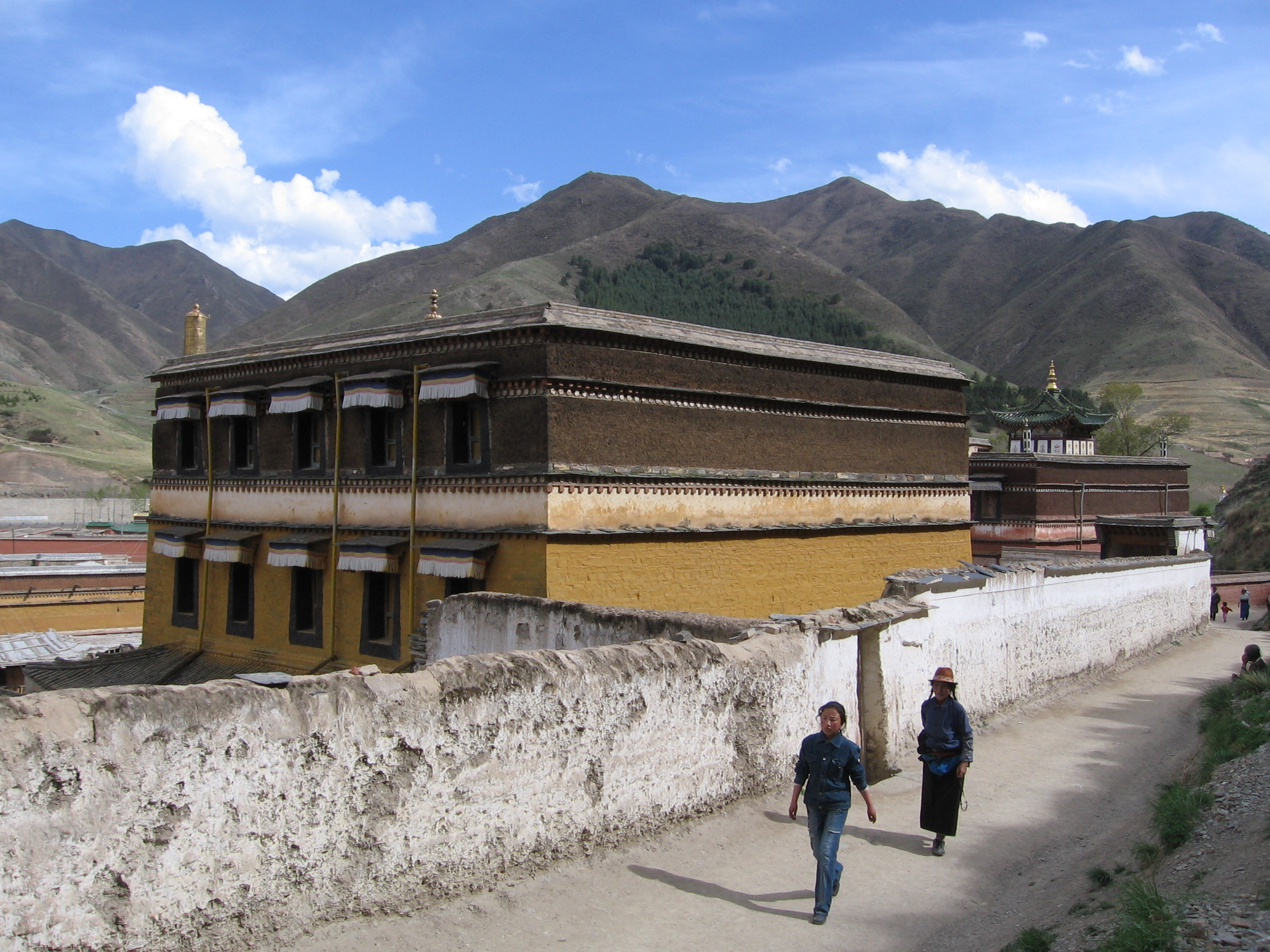 Part of the Tibetan Labrang monastery in the town of Xiahe, Gansu province, China